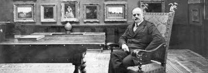 Wilhelm Peter Henning Hansen (1868-1936), Danish insurance company CEO, art collector, founder of Ordrupgaard, and Volapük practitioner